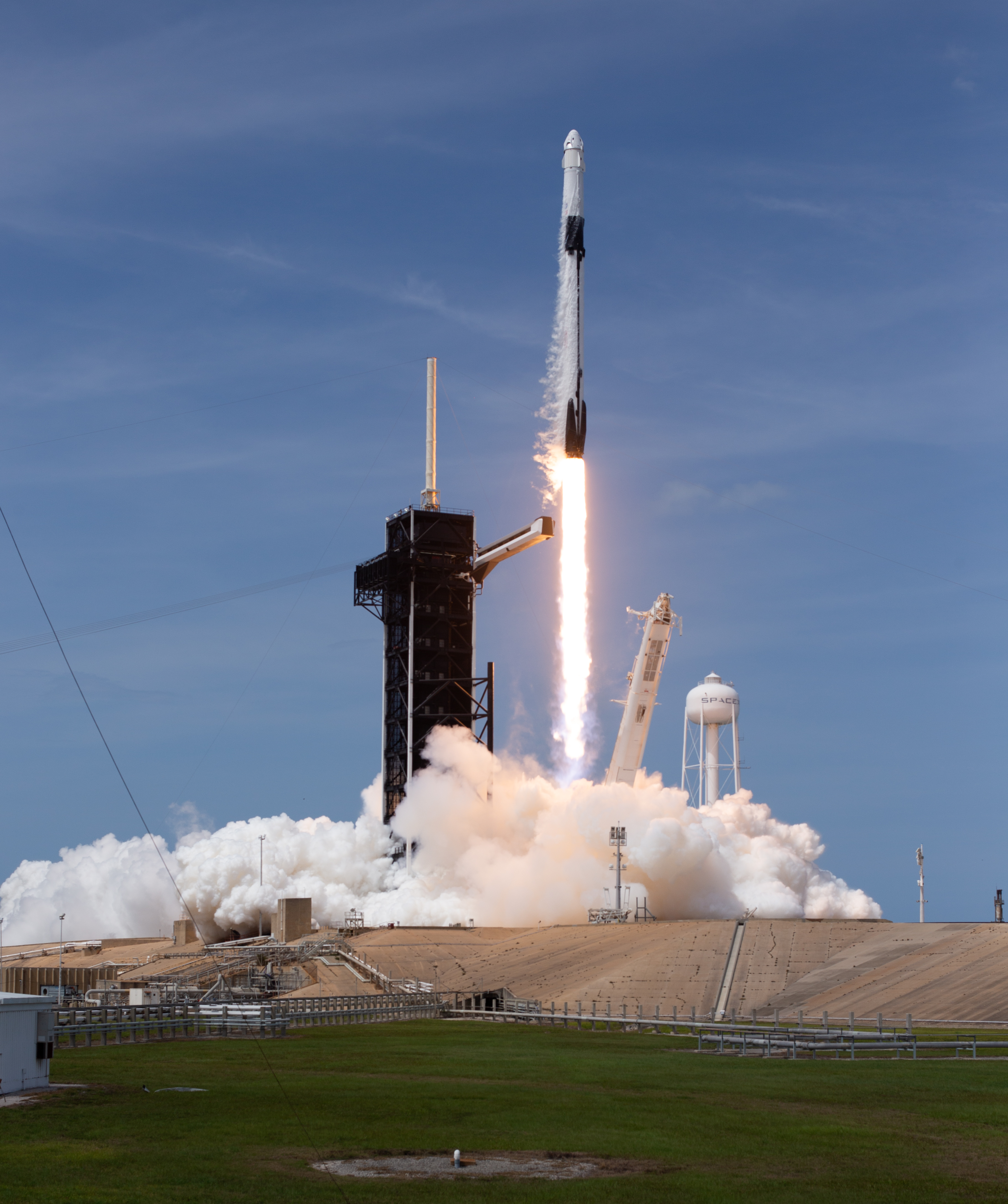 A SpaceX Falcon 9 rocket carrying the company's Crew Dragon spacecraft is launched from Launch Complex 39A on NASA’s SpaceX Demo-2 mission to the International Space Station with NASA astronauts Robert Behnken and Douglas Hurley onboard, Saturday, May 30, 2020, at NASA’s Kennedy Space Center in Florida. The Demo-2 mission is the first launch with astronauts of the SpaceX Crew Dragon spacecraft and Falcon 9rocket to the International Space Station as part of the agency’s Commercial Crew Program. The test flight serves as an end-to-end demonstration of SpaceX’s crew transportation system. Behnken and Hurley launched at 3:22 p.m. EDT on Saturday, May 30, from Launch Complex 39A at the Kennedy SpaceCenter. A new era of human spaceflight is set to begin as American astronauts once again launch on an American rocket from American soil to low-Earth orbit for the first time since the conclusion of the Space Shuttle Program in 2011. Photo Credit: (NASA/Joel Kowsky)